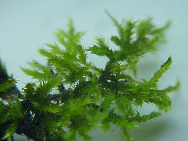 Species: Homalothecium sericeum Family: ' Image No. 2